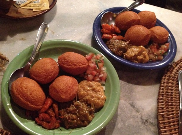 Acaraje picture